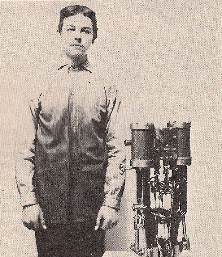 Carl Breer 1900, with homemade two cylinder steam engine.